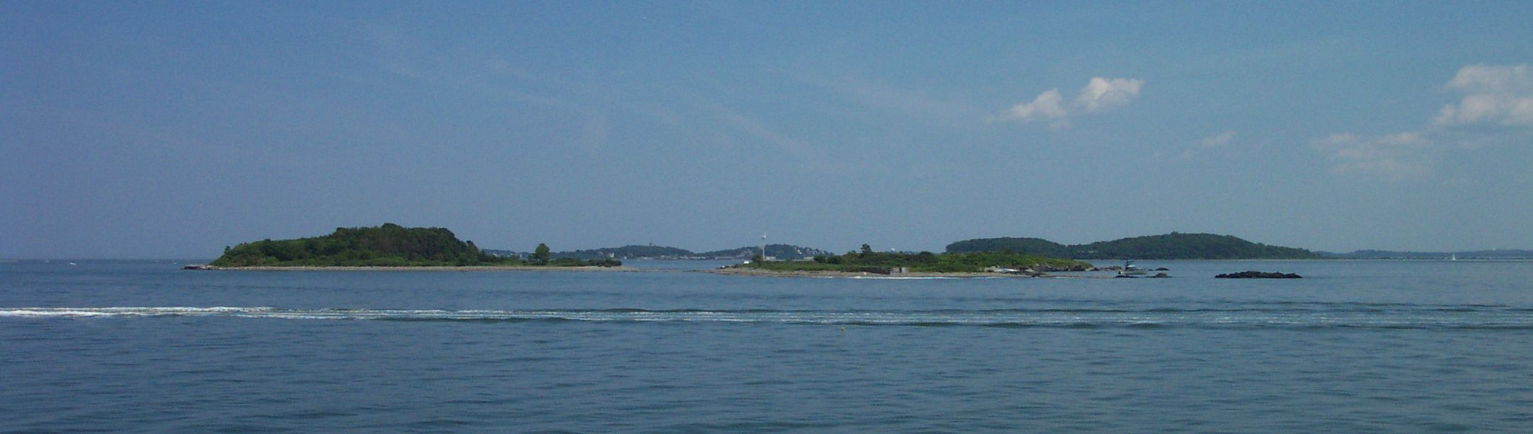 Rainsford Island in Boston Harbor. For more information see the Wikipedia article Rainsford Island.